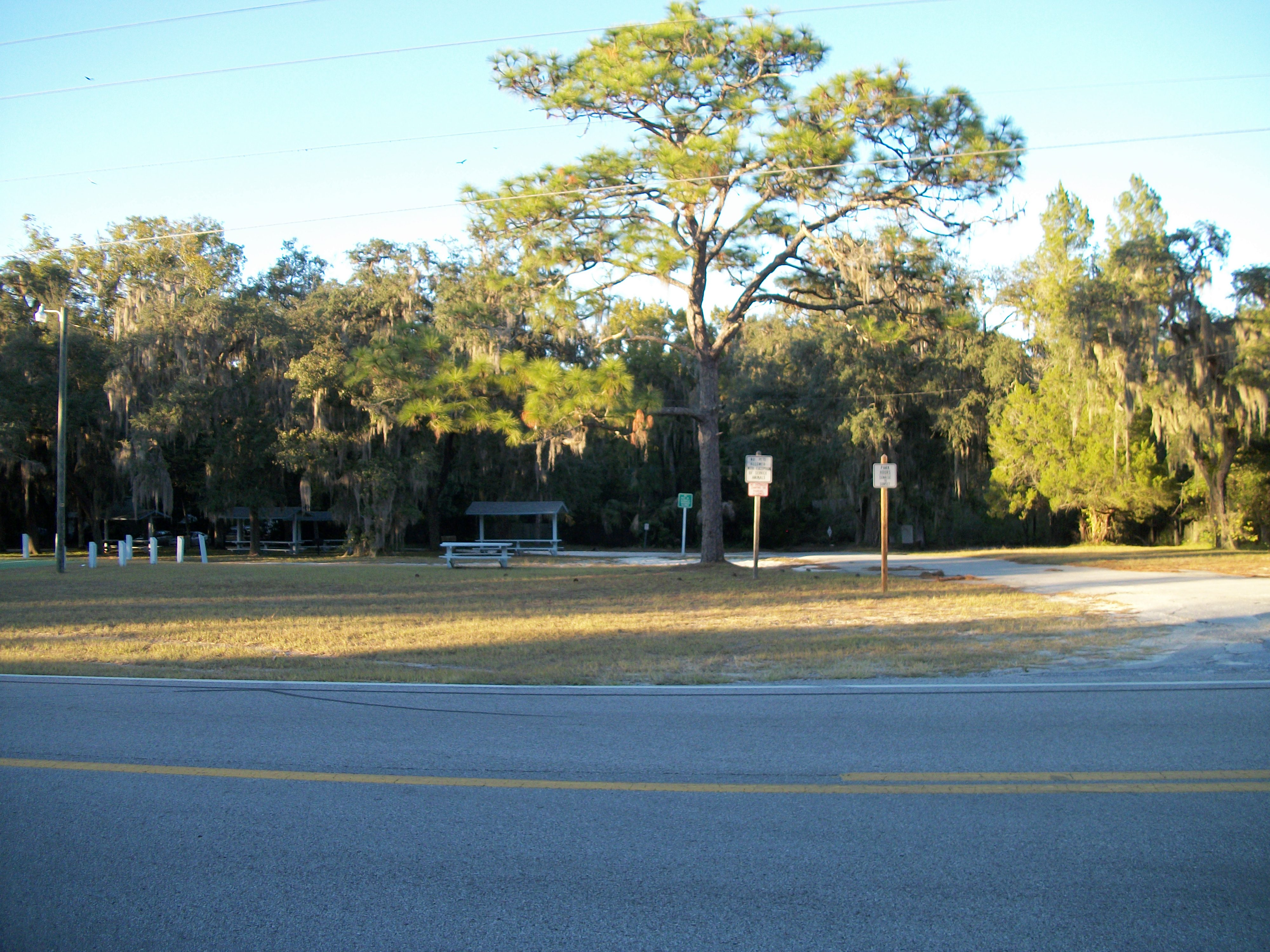 The Nobleton Wayside Park as seen from the corner of Hernando County Road 476 and Edgewater Avenue(former Hernando CR 39) in Nobleton, Florida.